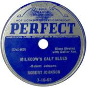 A record of Robert Johnson's Milkcow's Calf Blues, issued by Perfect Records